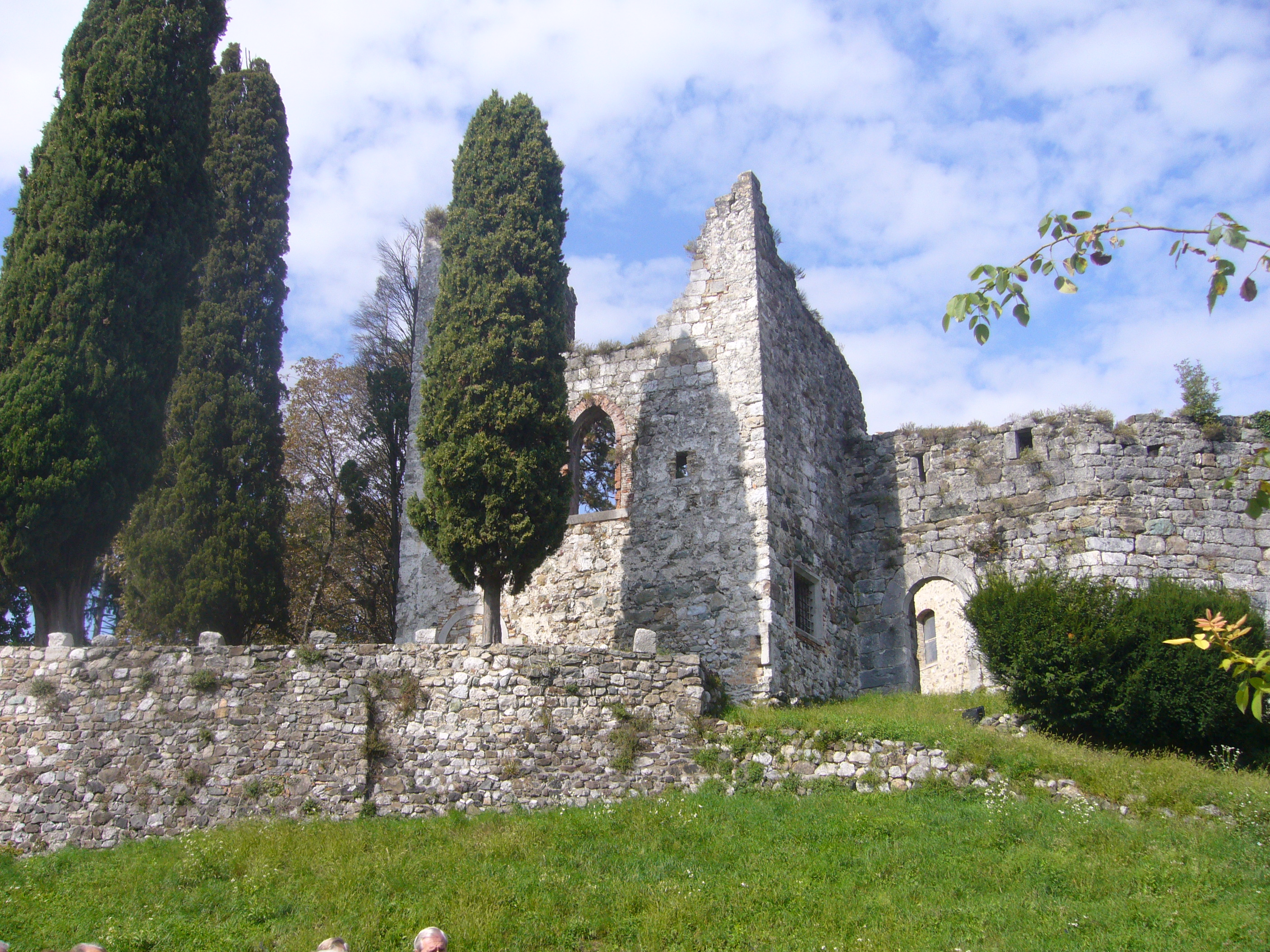 Ruins of Castle Brazzà in Italy